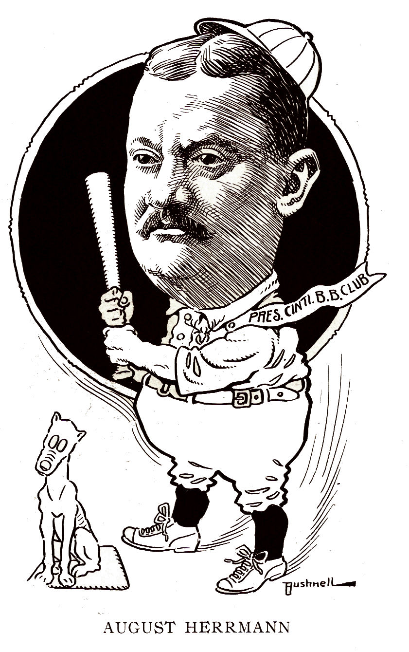 August Herrmann circa 1905-1910.